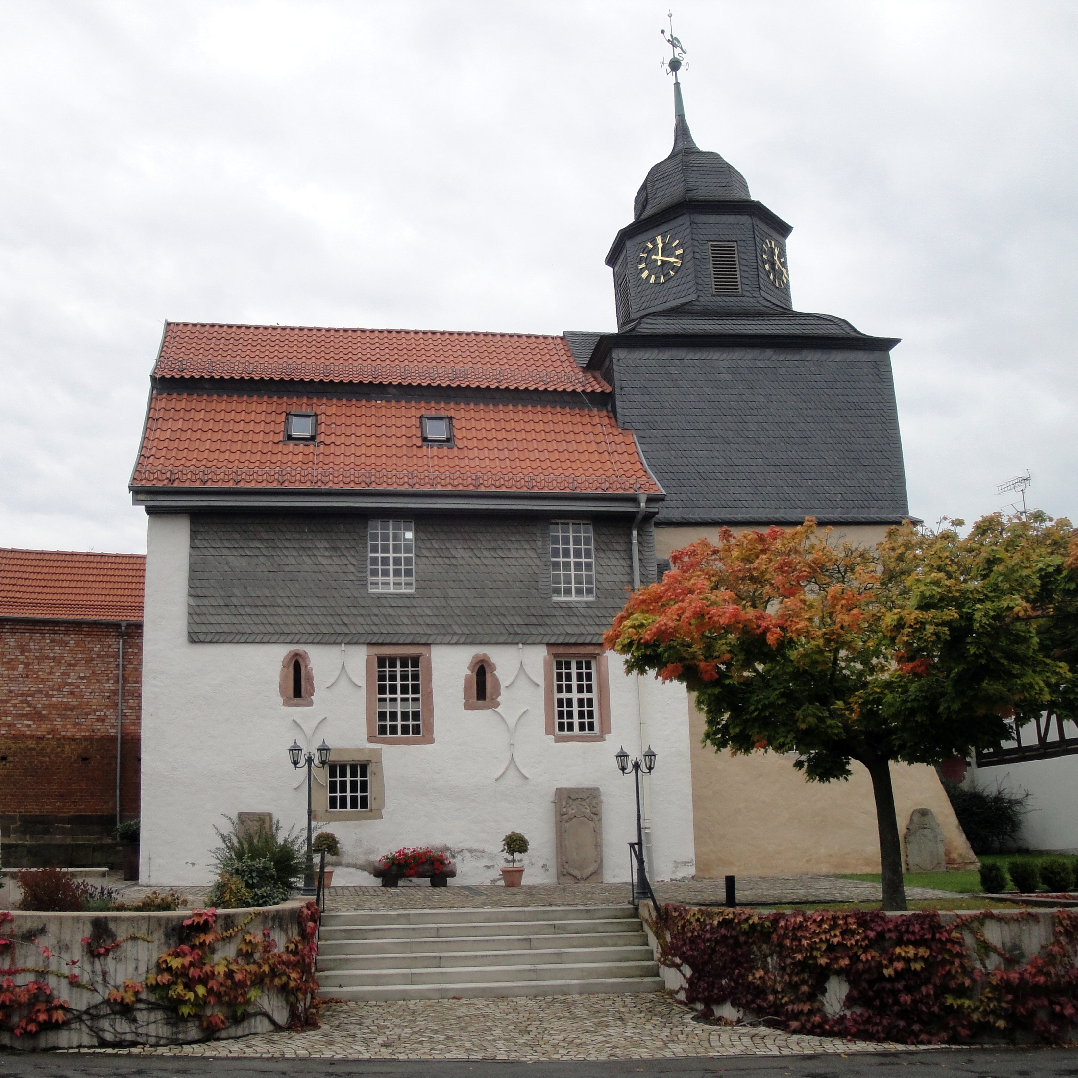 Church in Hönebach, Germany